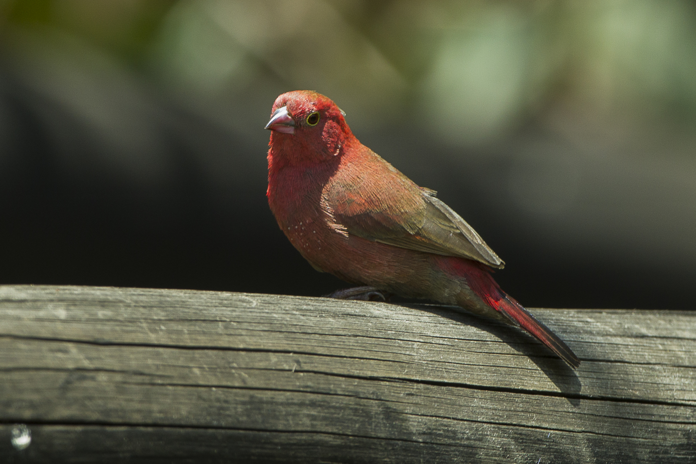 African Firefinch - Kenya_S4E9392